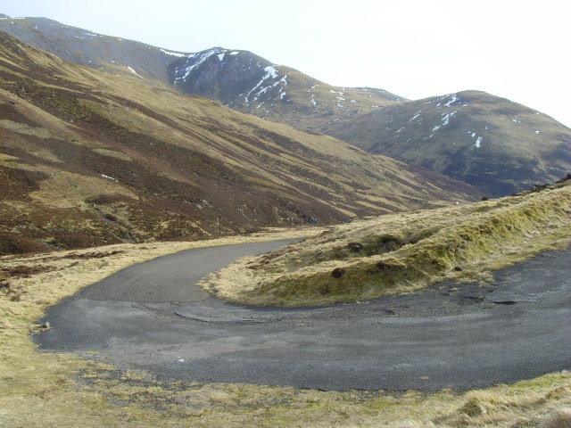 The Devil's Elbow. The lower part of the once-notorious double hairpin bend, now by-passed by the modern road slightly uphill. The mountain to the left is Creag Leacach (NO1574).